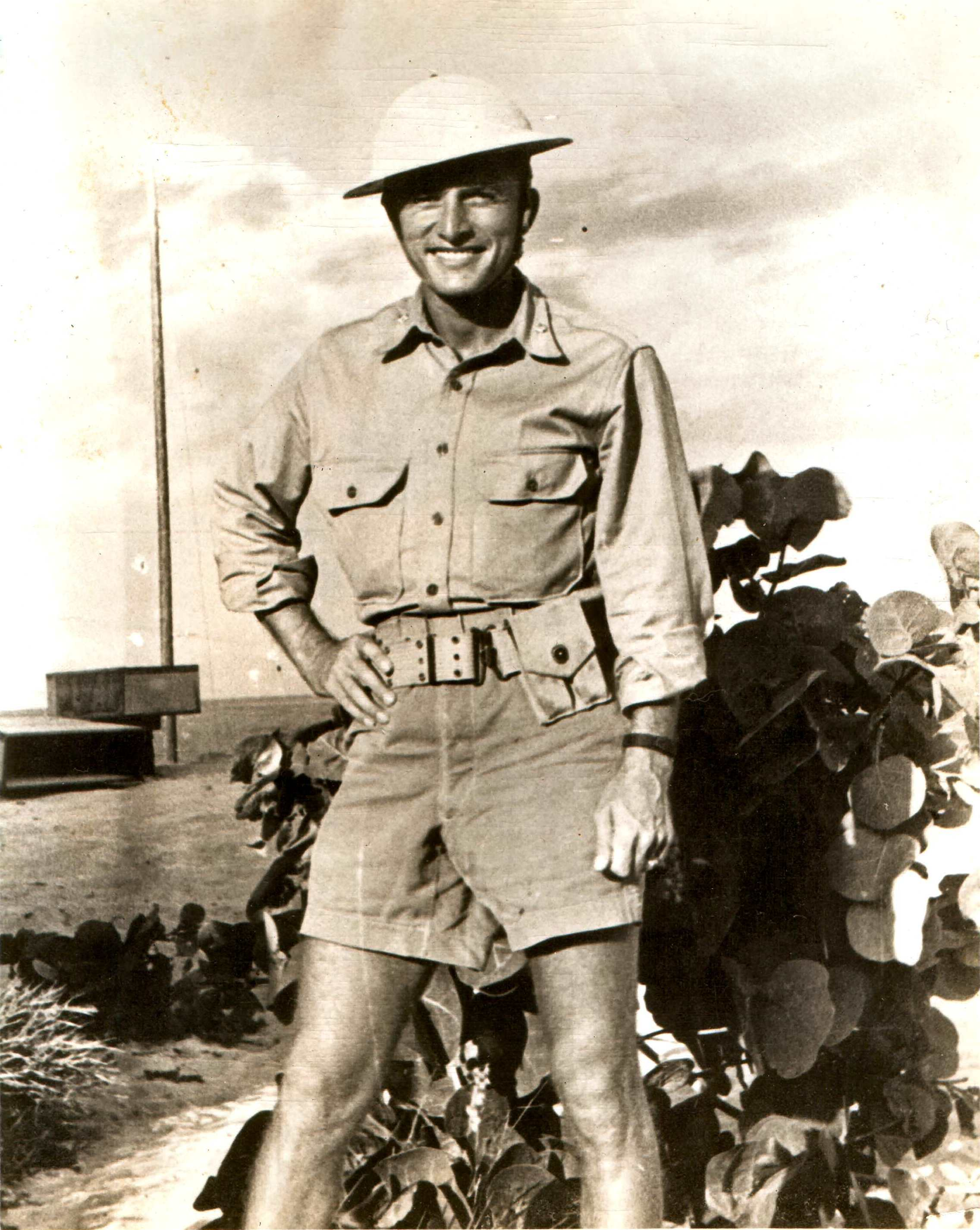 LtGen James M. Masters, Sr. as a major on Johnston Island in 1942